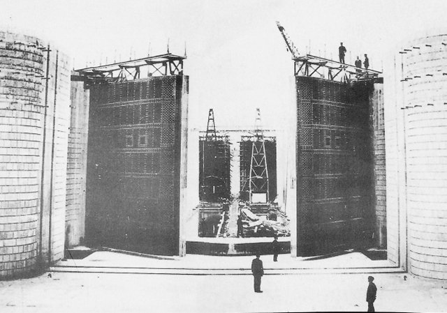 Dock of Incheon port built at 1917